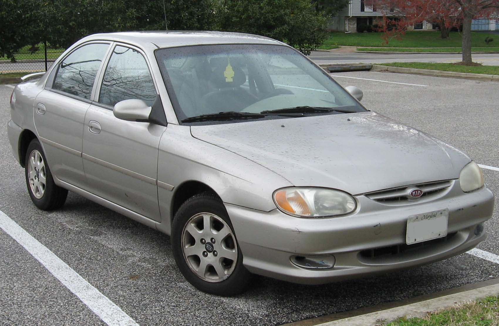 1998-2001 Kia Sephia photographed in USA.